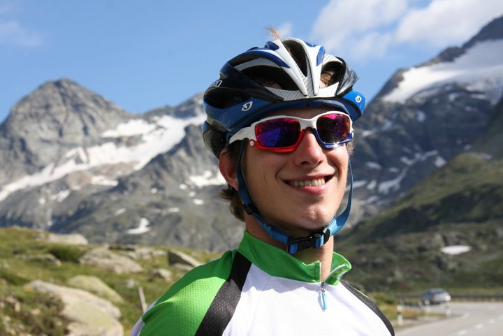 Jan Blokhuijsen